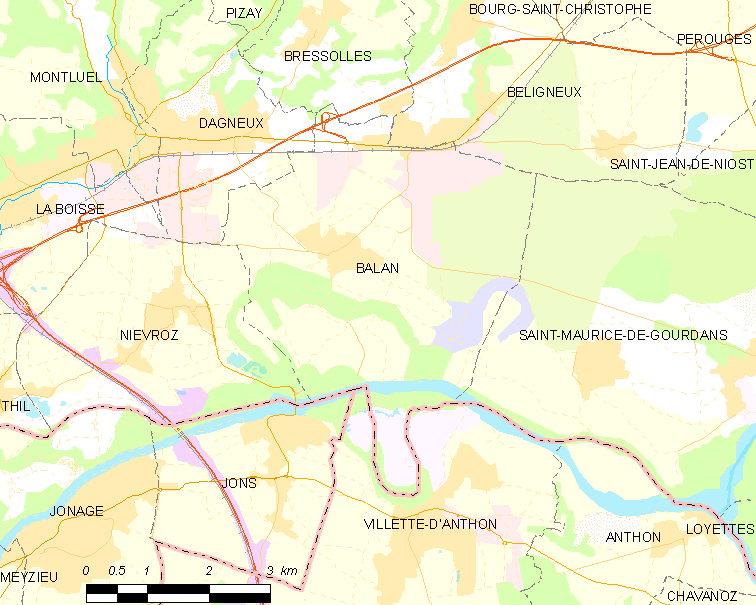 Map of French commune: Balan Map commune FR insee code 01027.png